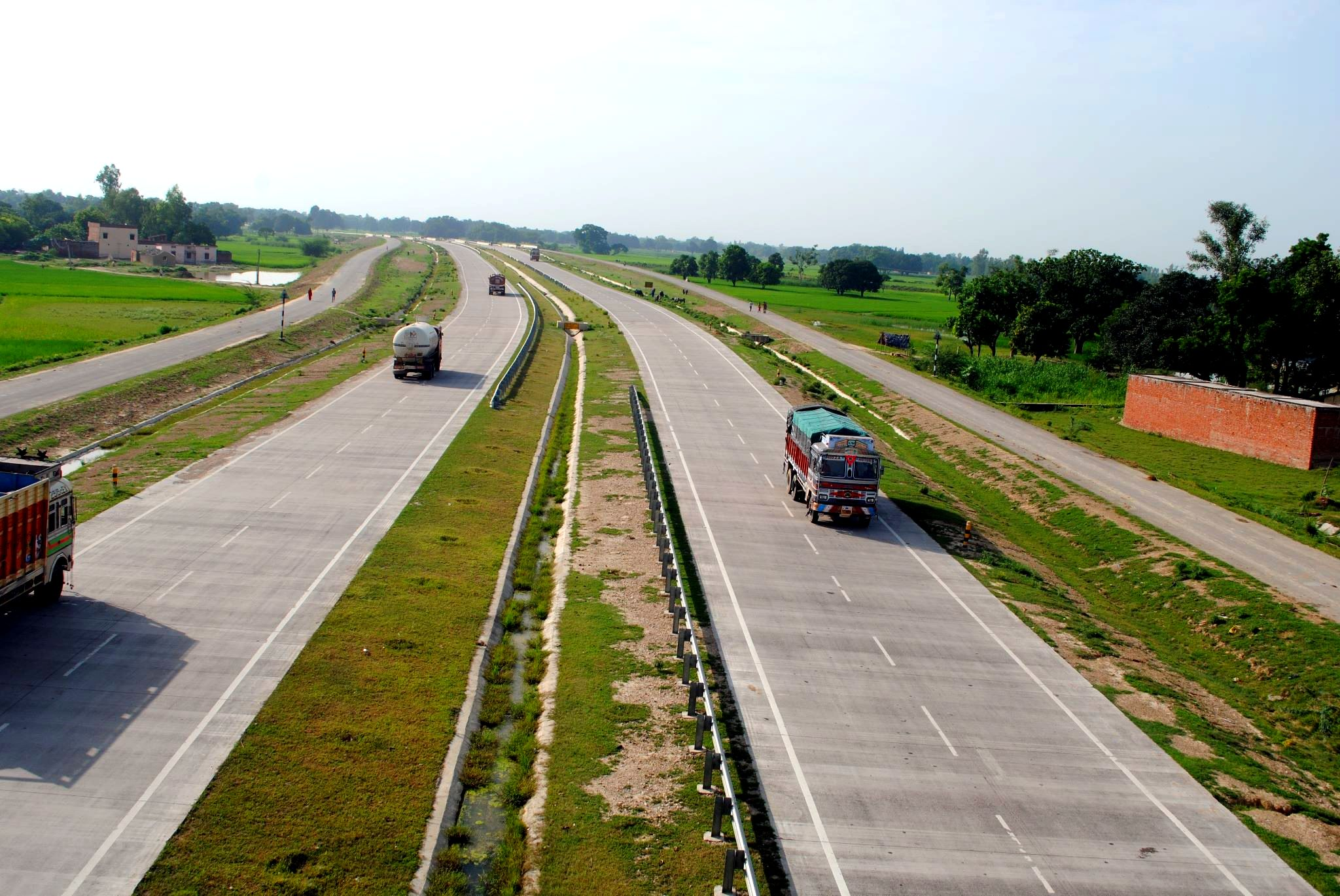 Allahabad Bypass